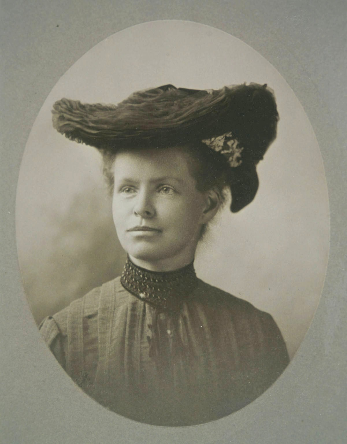 Nettie Maria Stevens (1861—1912) — american biologist and geneticist